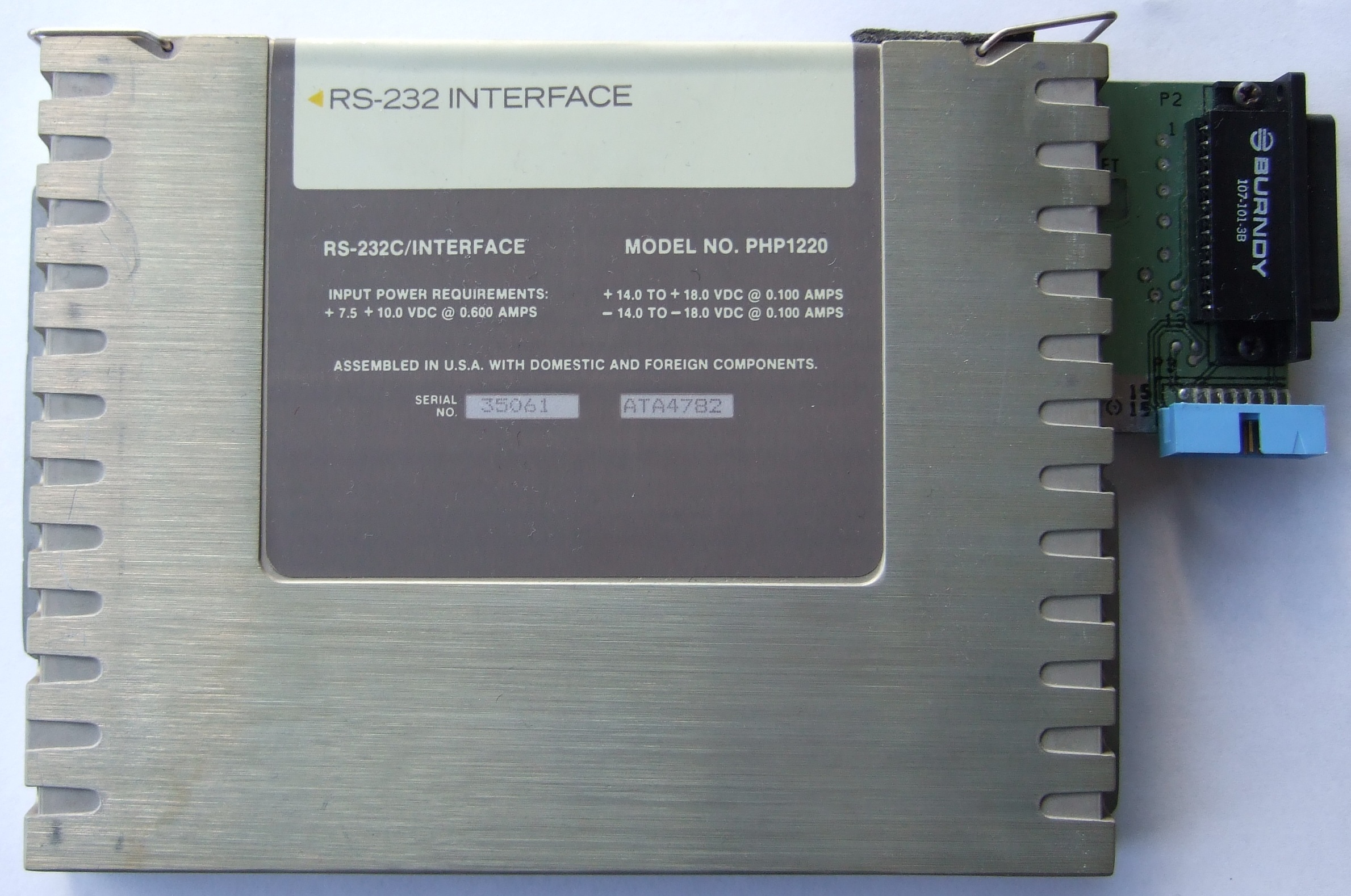 A PHP122ß RS-232 Interface Card